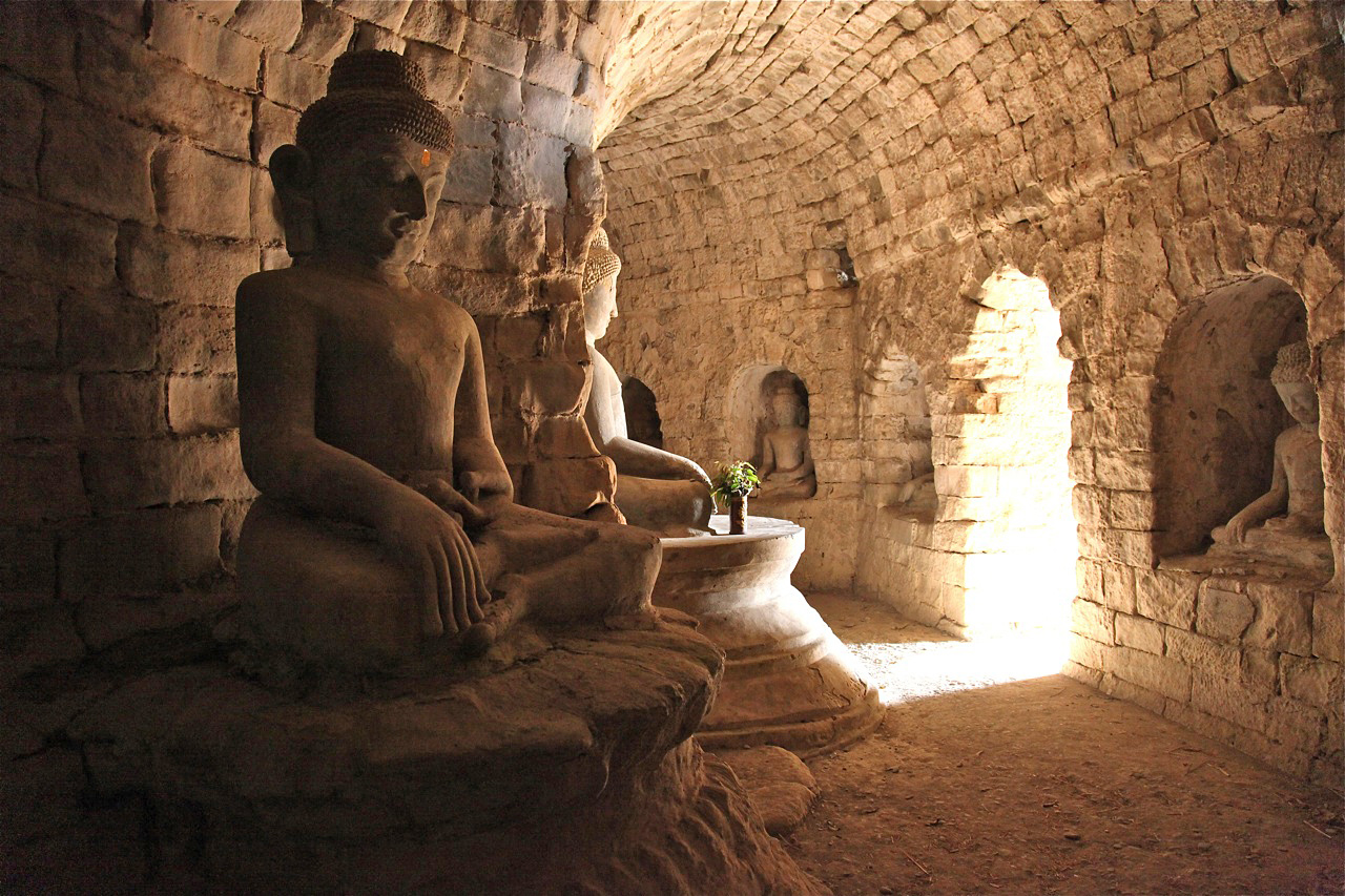 Le-Myet-Hna pagoda in Mrauk U